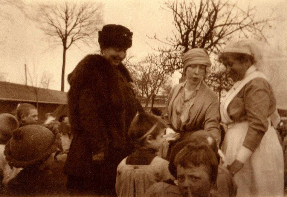 Queen Elisabeth of the Belgians and her sister-in-law Henriette, Duchess of Vendôme in Wulveringem. The child in front is picking his nose.